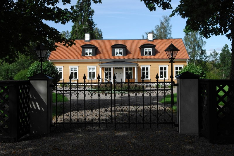 Photo of Ingemarstorp, main building